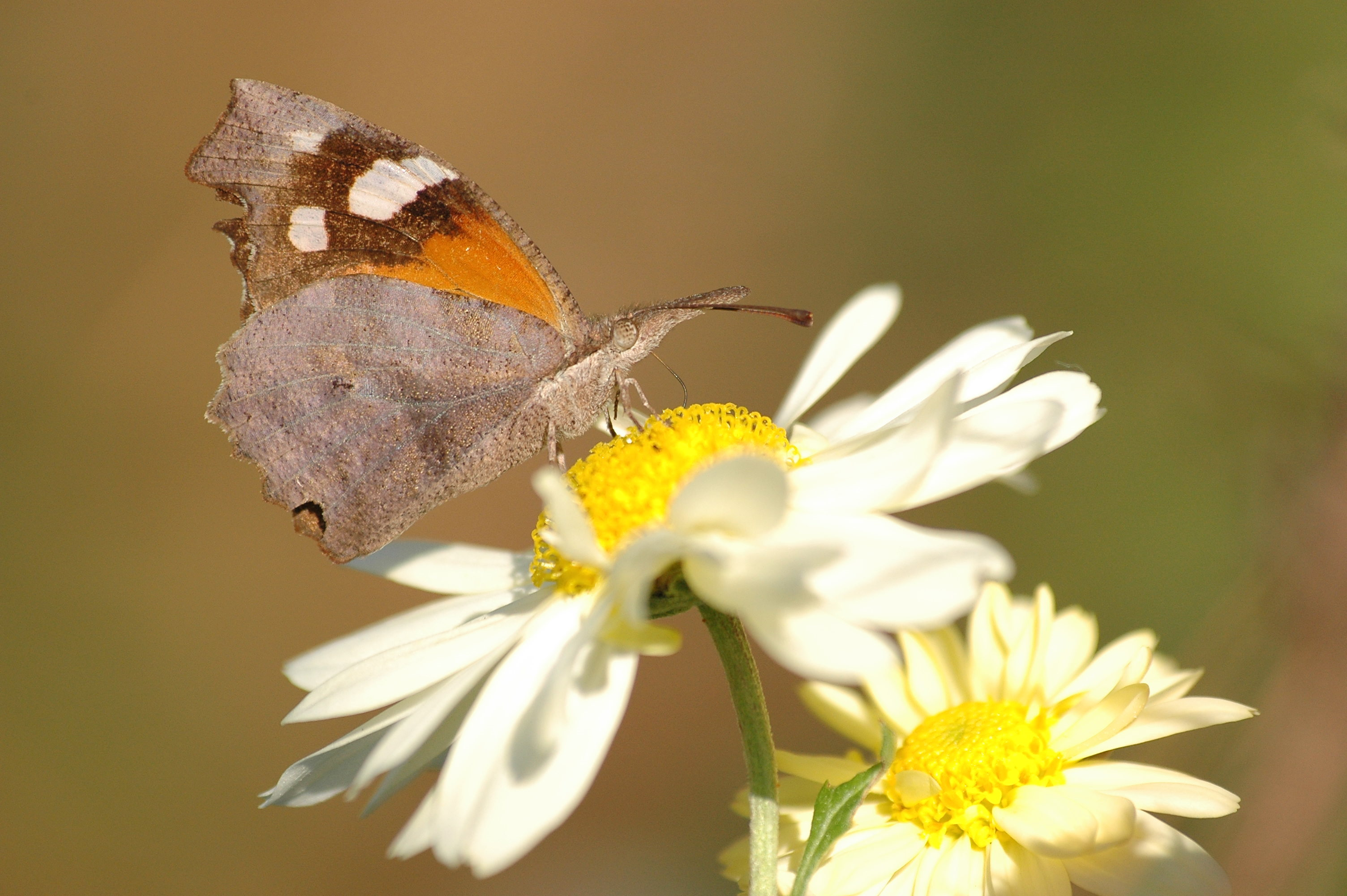 American Snout in Hephzibah, GA.